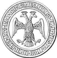 Russian coat of arms with a double-headed eagle on the seal of Ivan III